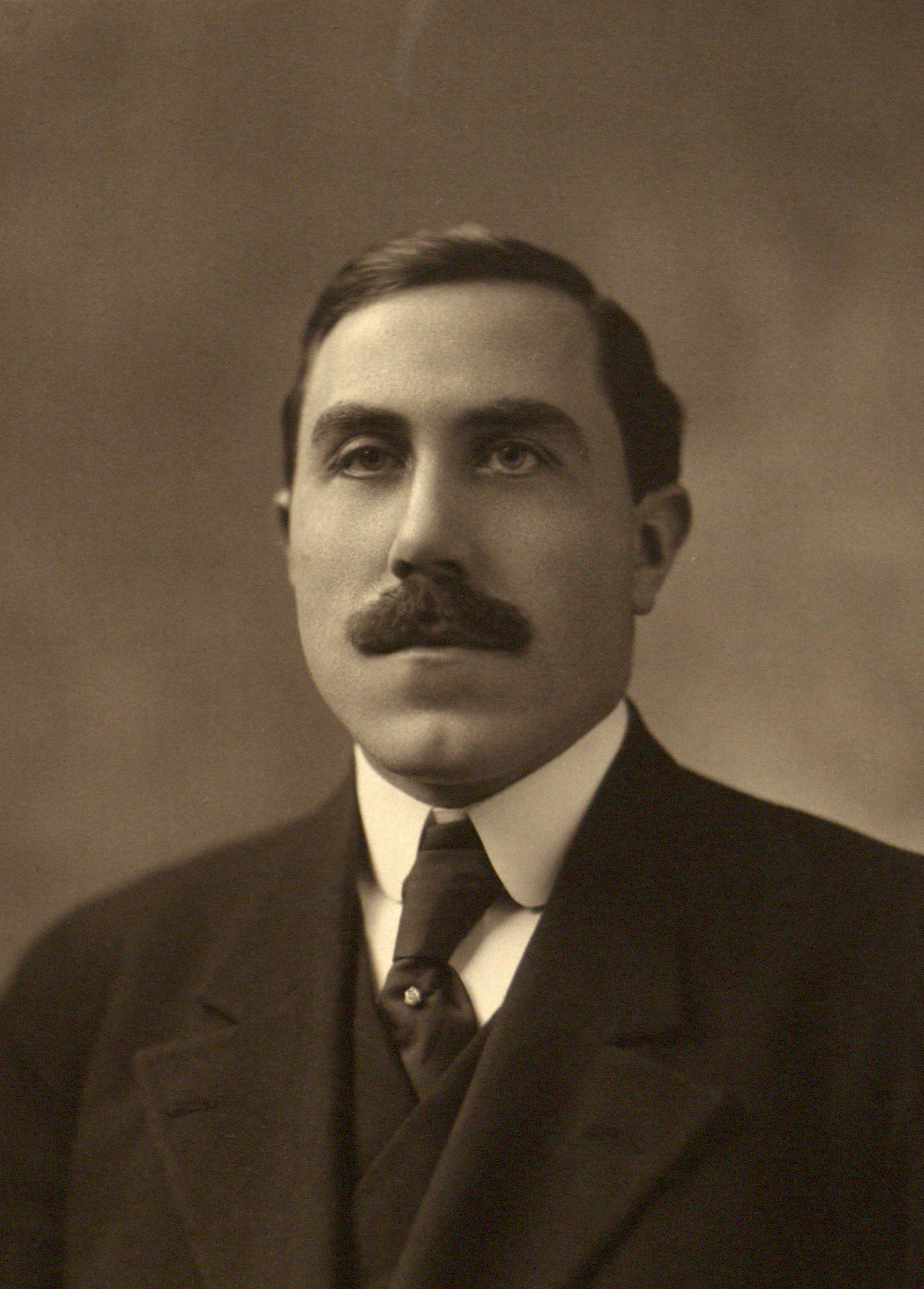 Portrait style photograph of Joseph McGarrity, Irish-American political activist.